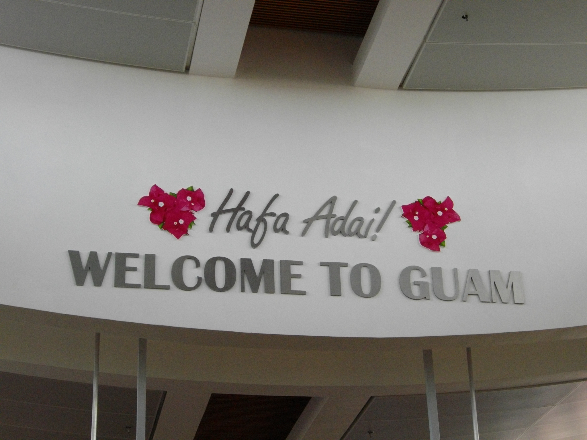 Welcome to Guam